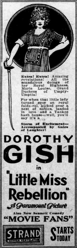 Newspaper advertisement for the American comedy drama film Little Miss Rebellion (1920) with Dorothy Gish, on page 11 of the May 26, 1921 Duluth Herald.